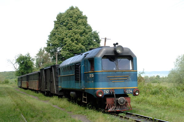 TU2-034 in Chmylnik